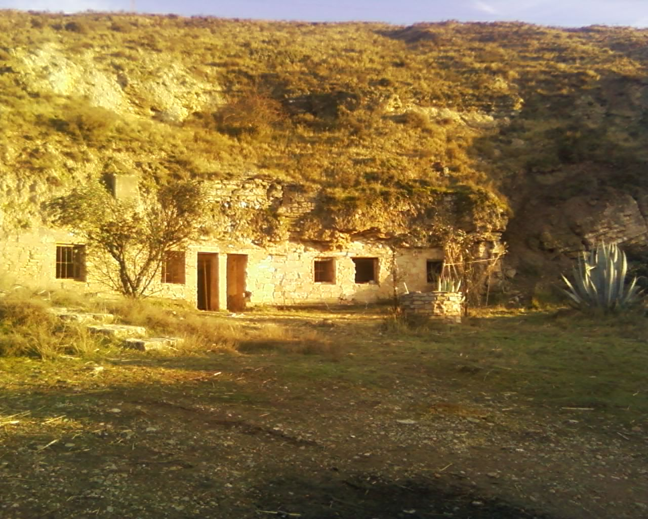 xfbxg